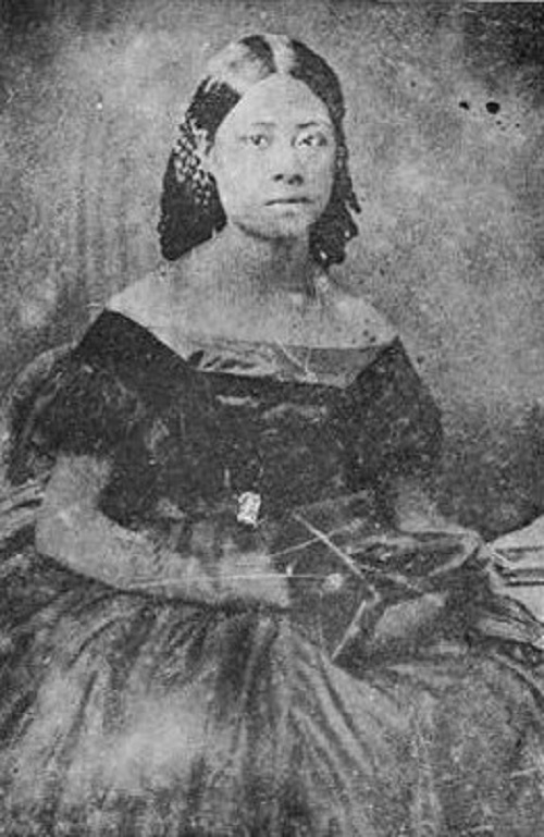 Hoolanie Ahung or Hualani Chun (1844–1906), daughter of Louisa and Chun Hung "Ahung"; married Rufus Anderson Lyman. She changed her name to Rebecca Brickwood after her mother second marriage. She was part Hawaiian, part Chinese, and part Cherokee.